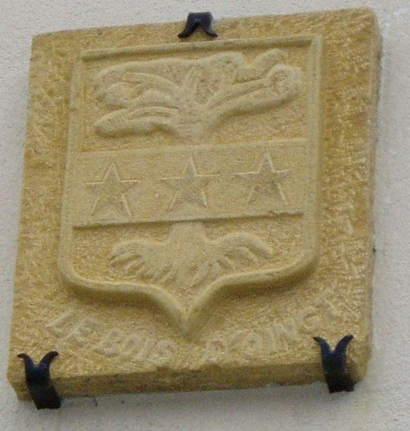 Blazon of the town of Le Bois d'Oingt in France